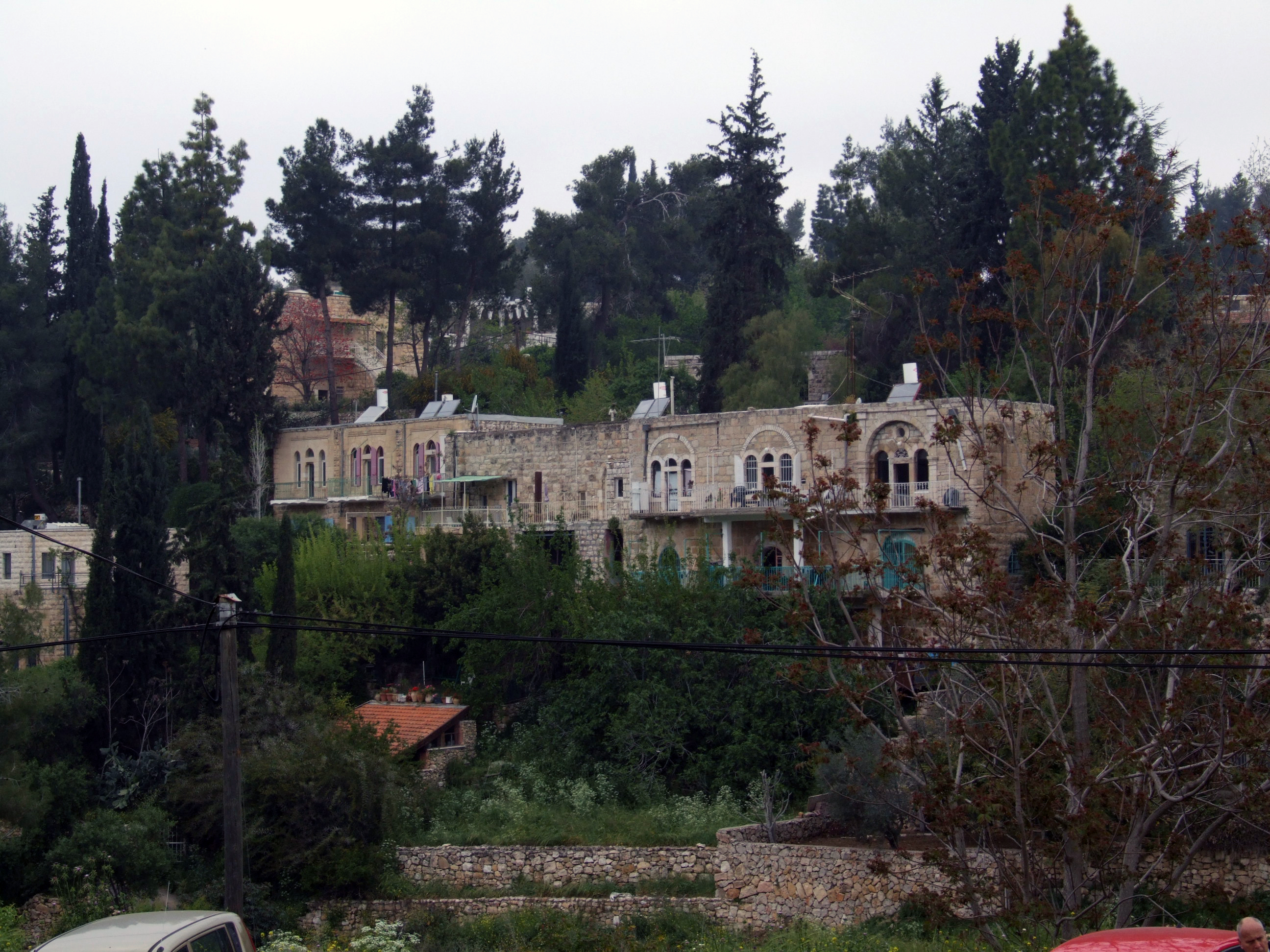 Old arab houses in Ein Kerem, Jerusalem, Israel.